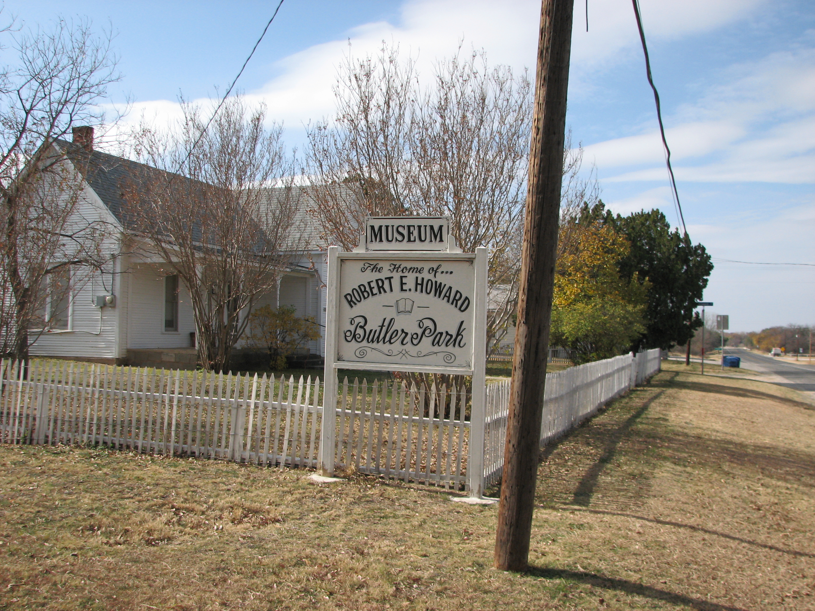 The Robert E. Howard Museum, the former home of Robert E. Howard.